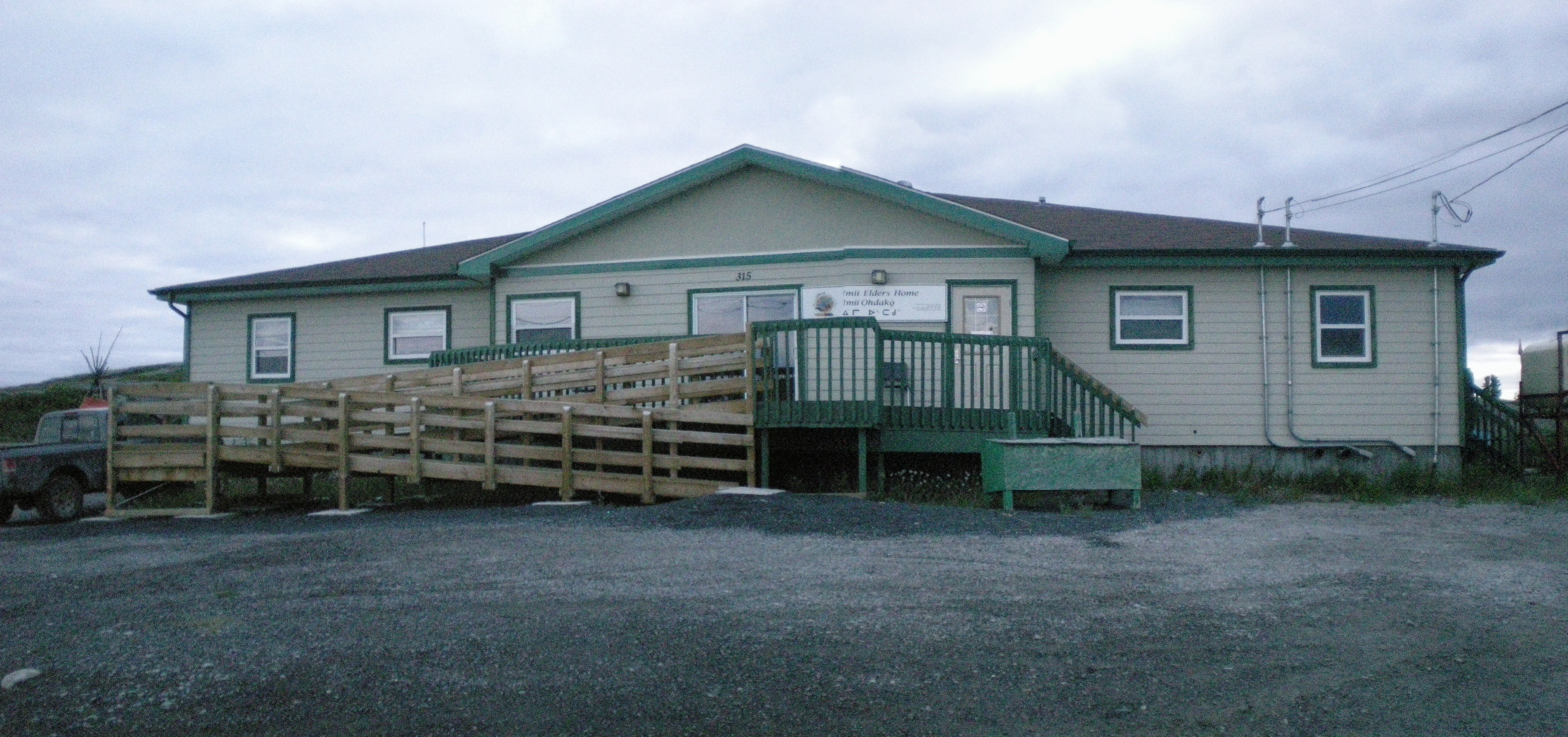 The Imii Elders Home at Dettah